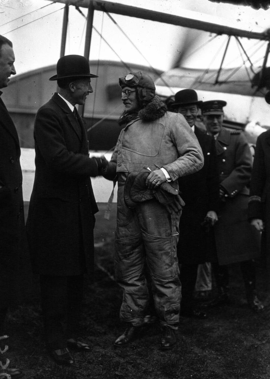 French under-secretary of State for National Defense Etienne Riché welcoming British Prime Minister Ramsay MacDonald at Le Bourget airport on April 20, 1932.